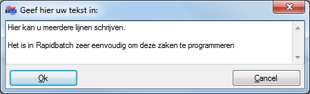 Rapidbatch examplescript